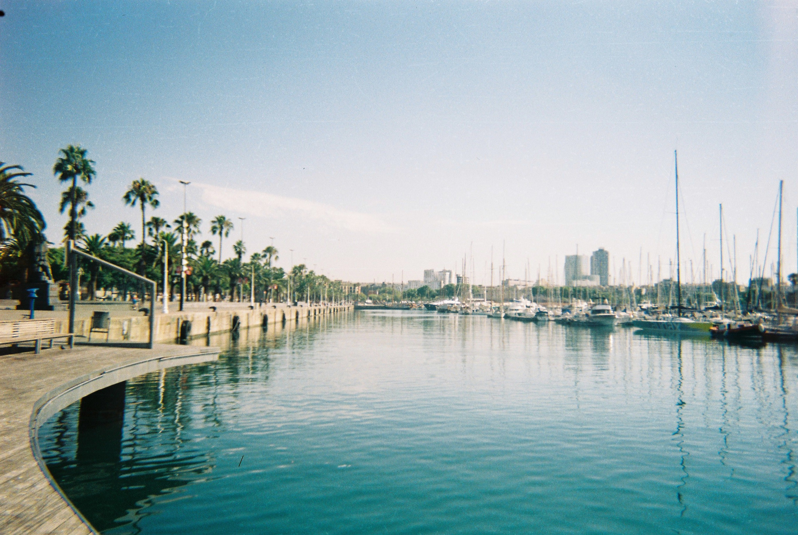 Port Vell, Barcelona, Spain